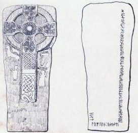 image